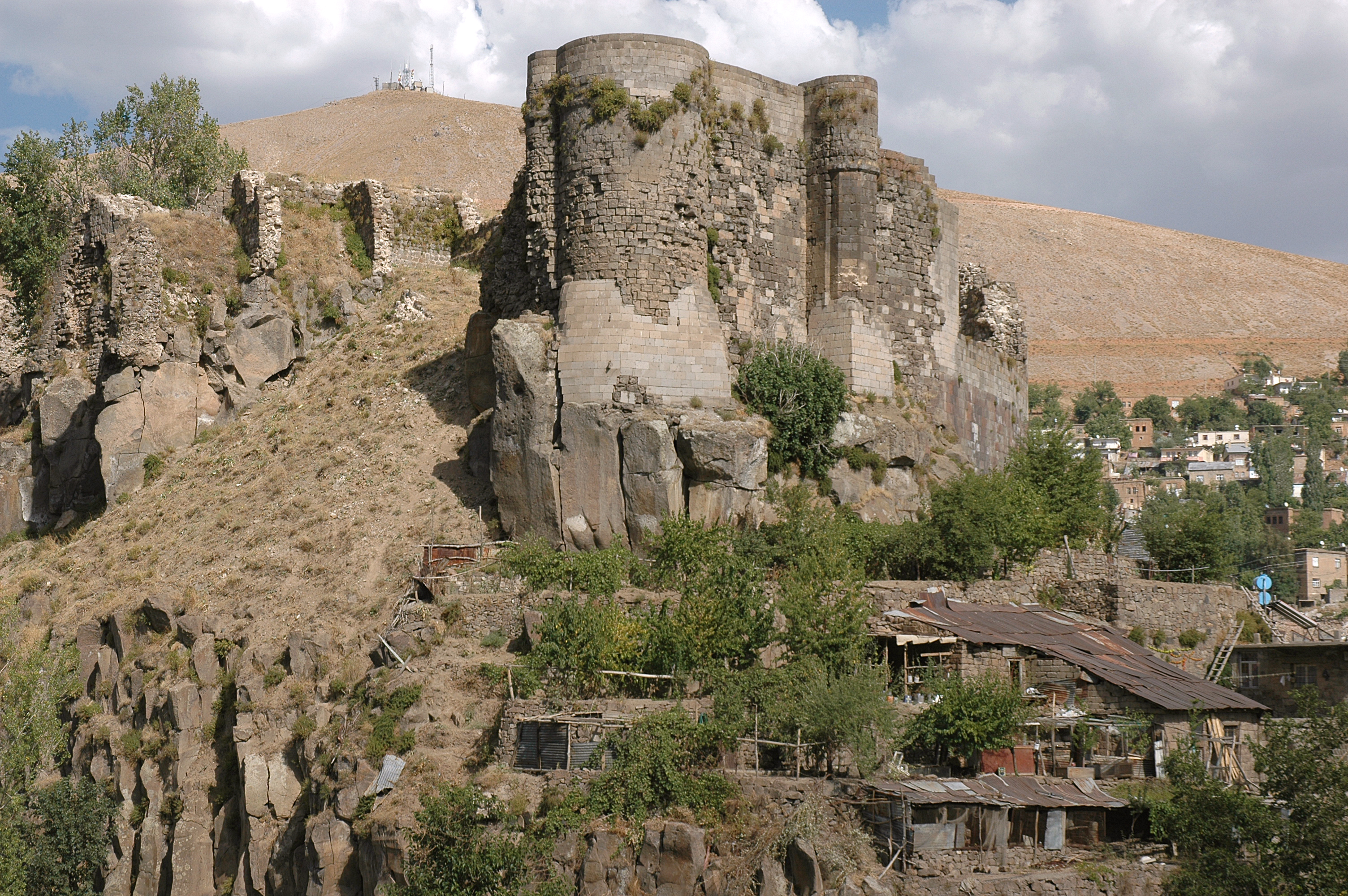 The Bitlis Castle cannot be overlooked, it domineers the centre. Its kernel is Byzantine, but it has been added to and changed until well into Ottoman times. In 1911 big parts were transported away, to be used as building material. Source: Knaurs Kültürführer (Dutch Edition).